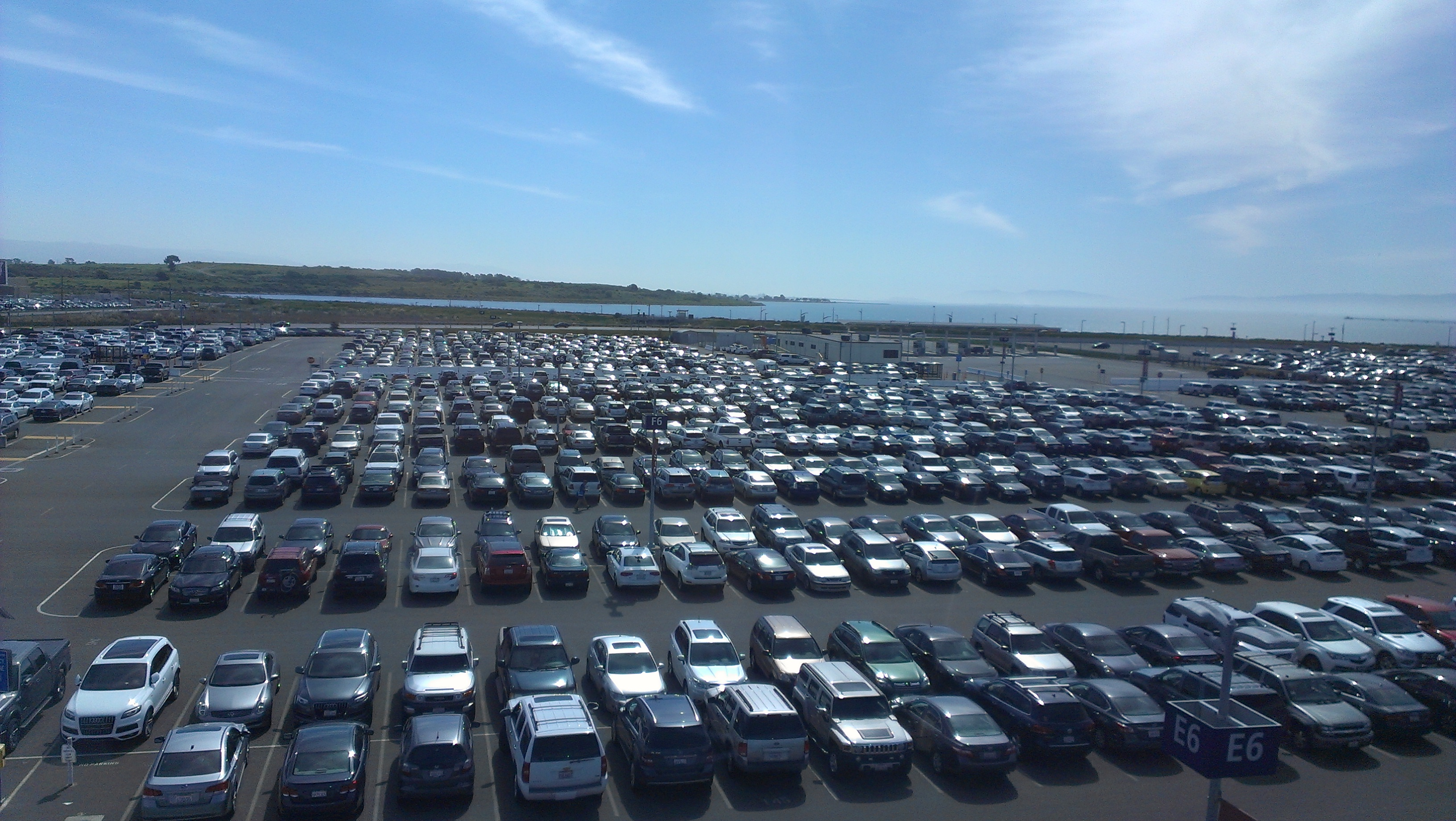 Viewed from BART airport line